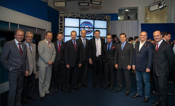 Estreia RBS Bnu HD